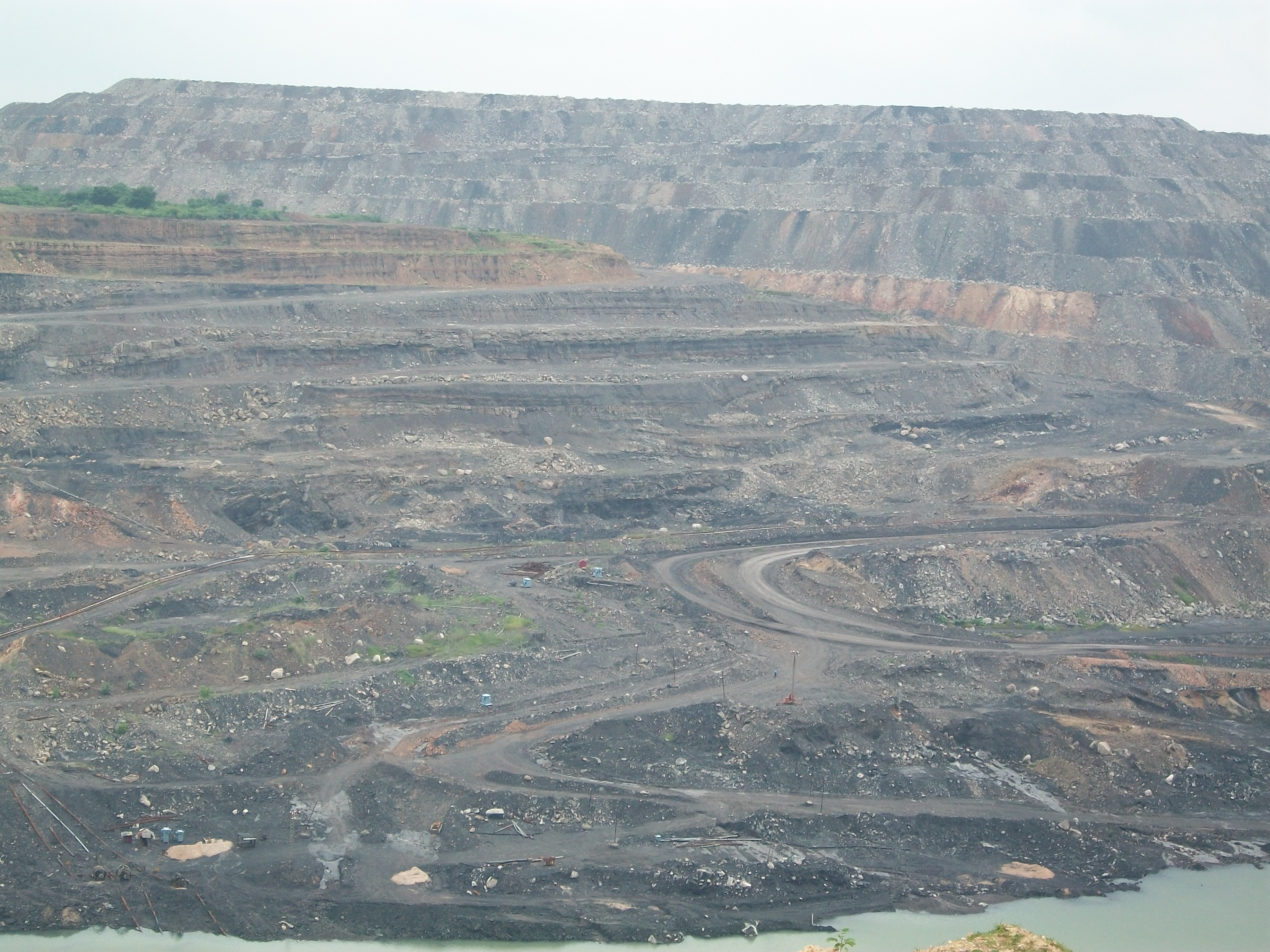 Singareni opencast coal mines at Manuguru, Khammam district, Andhra Pradesh